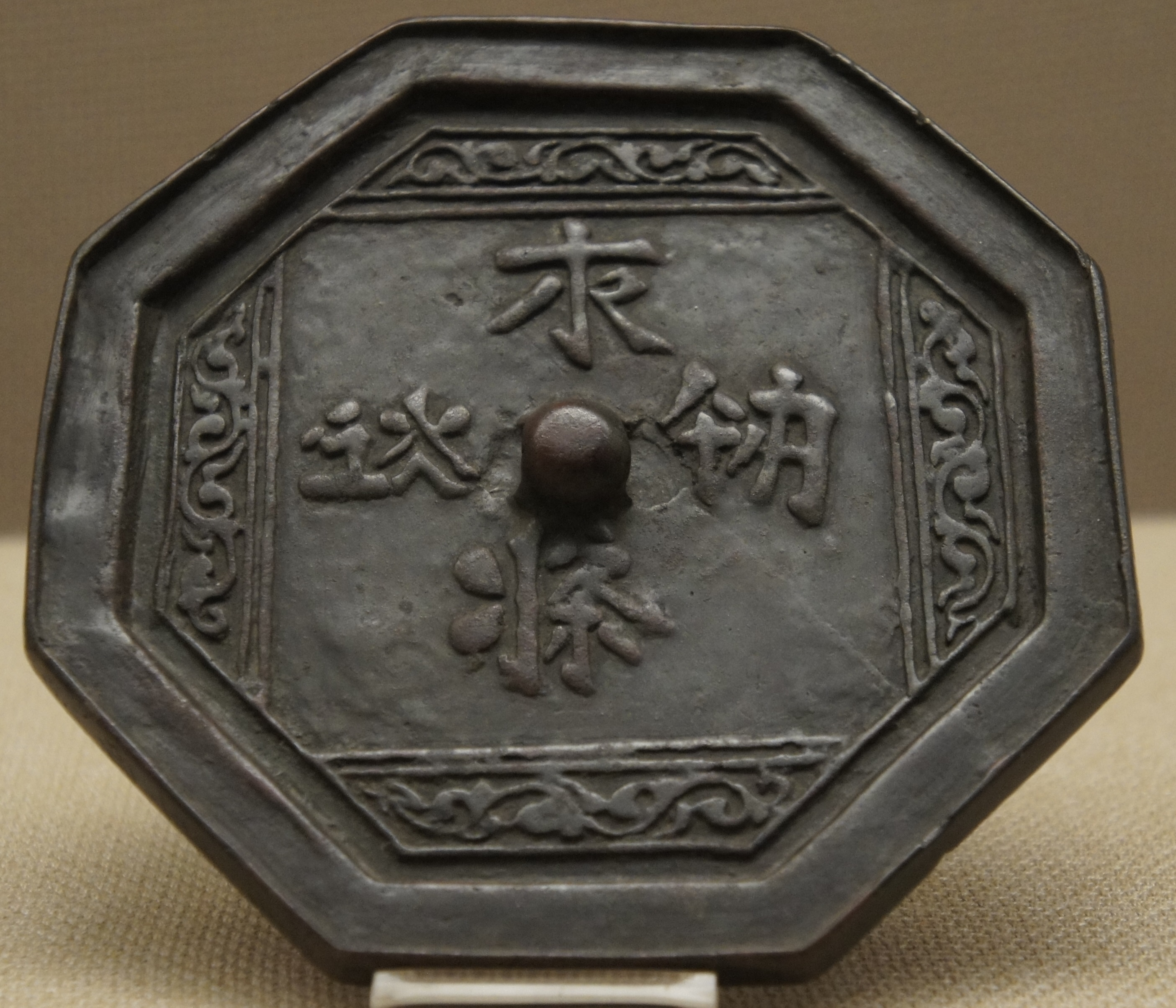 Bronze mirror with inscriptions (寿长福德) written in Khitan small script dated from Liao dynasty (907 - 1125 AD), excavated at Chifeng, Inner Mongolia.